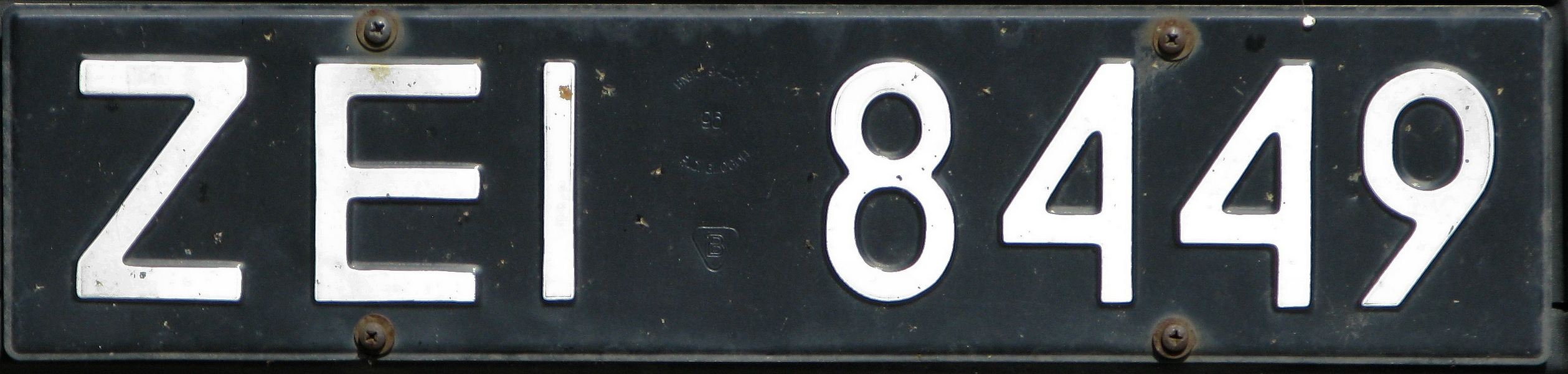 1976-2000 series polish car plate. ZE - zielonogórskie voivodeship I - Nowa Sól district (1993-1996)